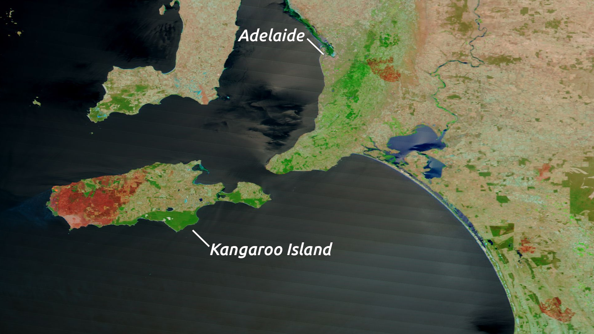 False color imagery from NASA Terra Satellite showing MODIS bands 7-2-1 data of Australian bushfires on Kangaroo Island. Notable landmarks labeled. We acknowledge the use of imagery from the NASA Worldview application ( part of the NASA Earth Observing System Data and Information System (EOSDIS).